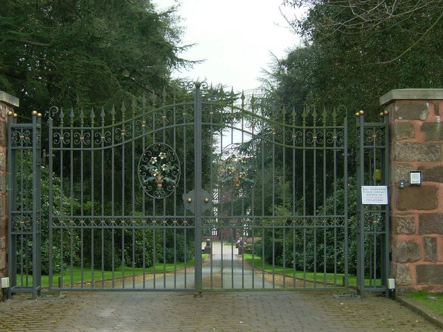 Broughton Hall Gates. The beautiful entrance to Broughton Hall.